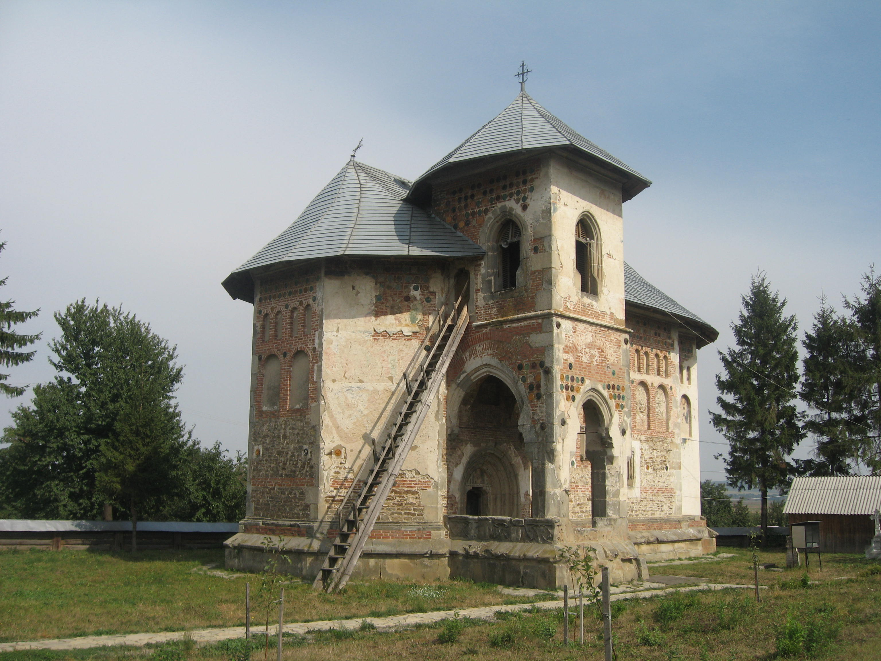 Biserica Sfântul Nicolae din Bălineşti